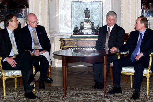 PETERHOF. Vladimir Putin and British Prime Minister Tony Blair.